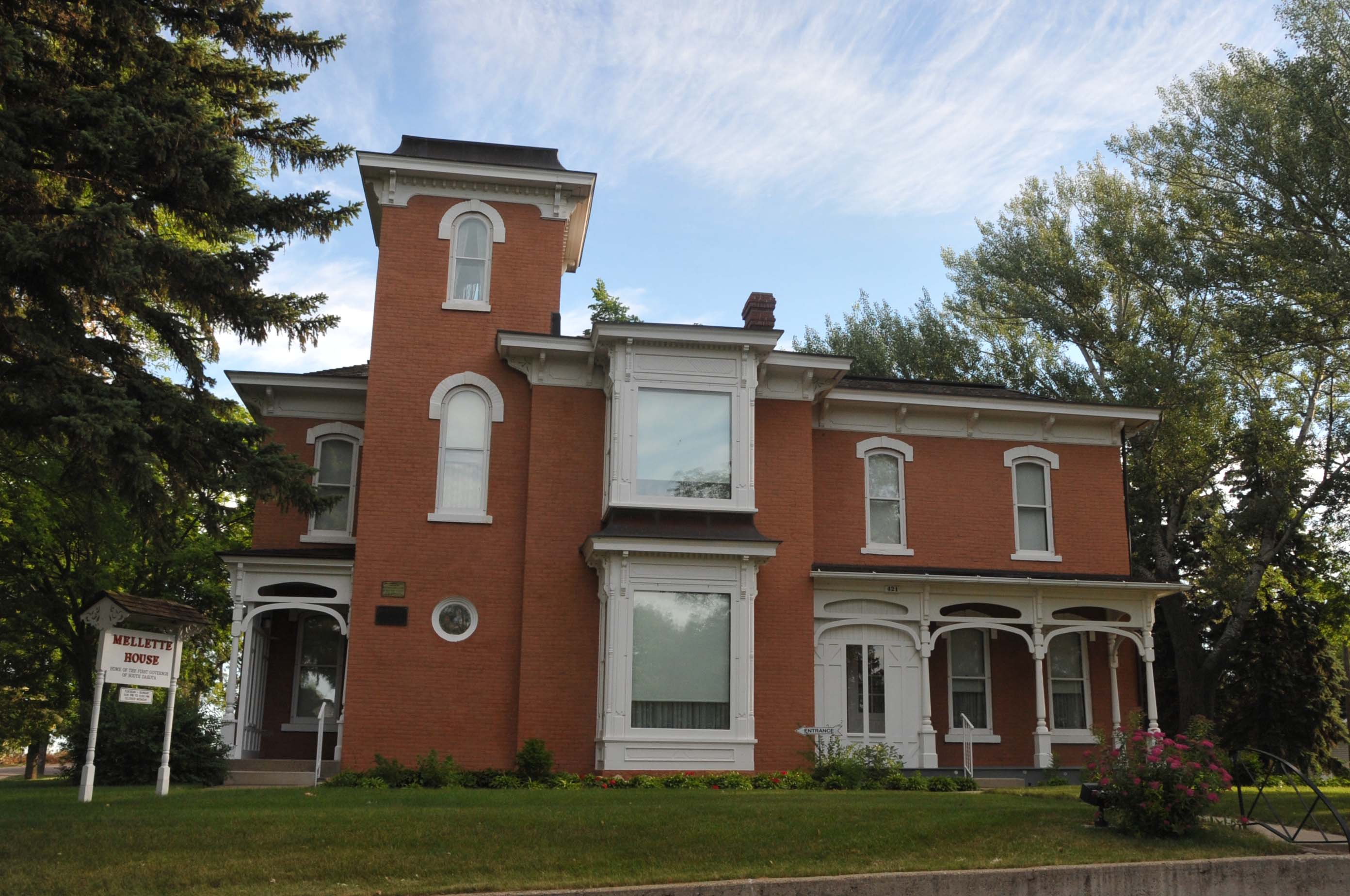 1883 ITALIANATE VILLA BUILT FOR ARTHUR MELLETTE WHO WAS THE LAST GOVERNOR OF DAKOTA TERRITORY AND THE FIRST GOVERNOR OF THE STATE OF SOUTH DAKOTA FROM 1889 TO 1892. HE WAS INSTRUMENTAL IN GETTING SOUTH DAKOTA ADMITTED AS A STATE